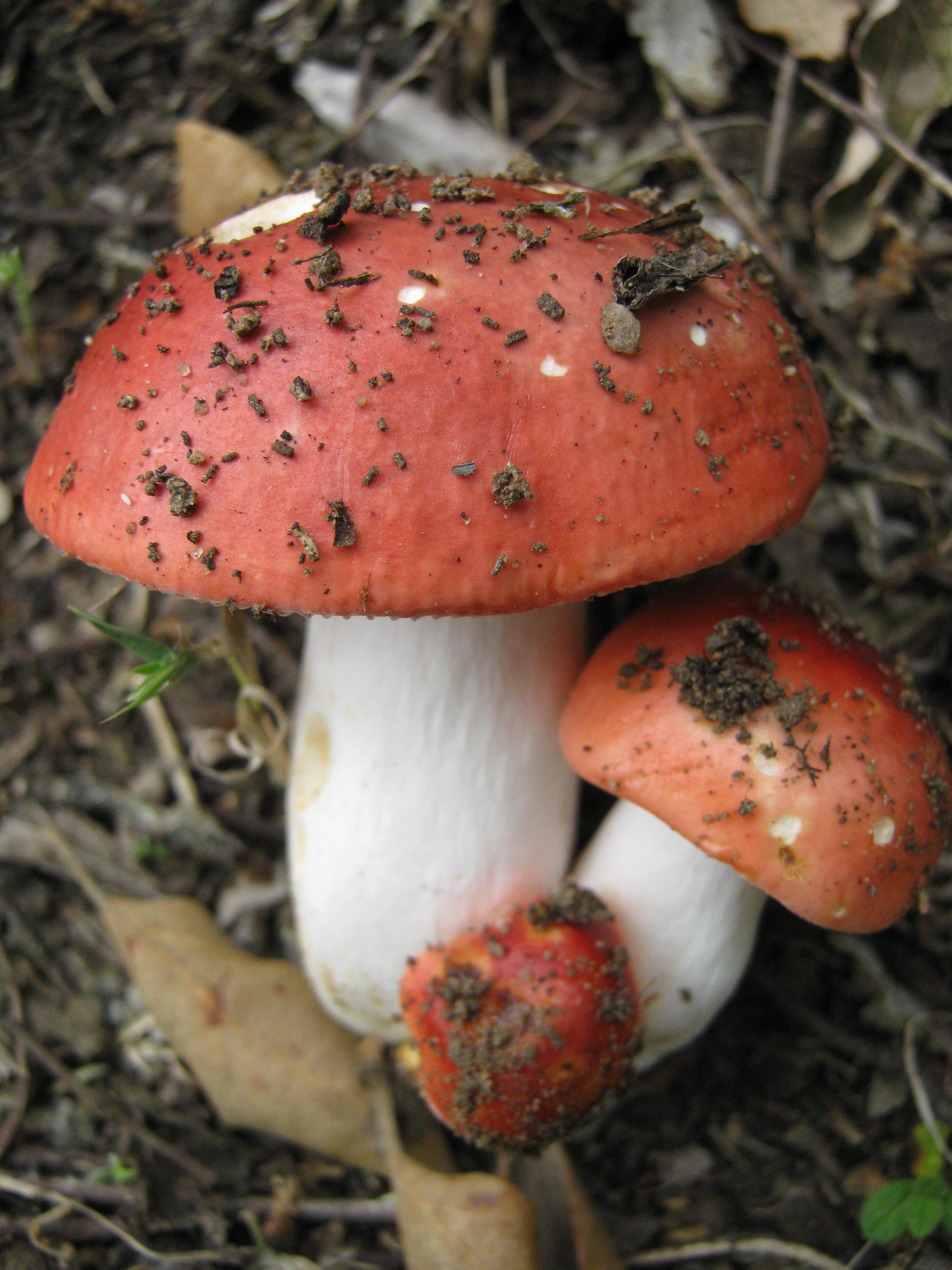 Russula lepida Image location: Lourinhã, Portugal Found under Quercus trees. Taste and odor light menthol. Based on microscopic features For more information about this, see the observation page at Mushroom Observer.